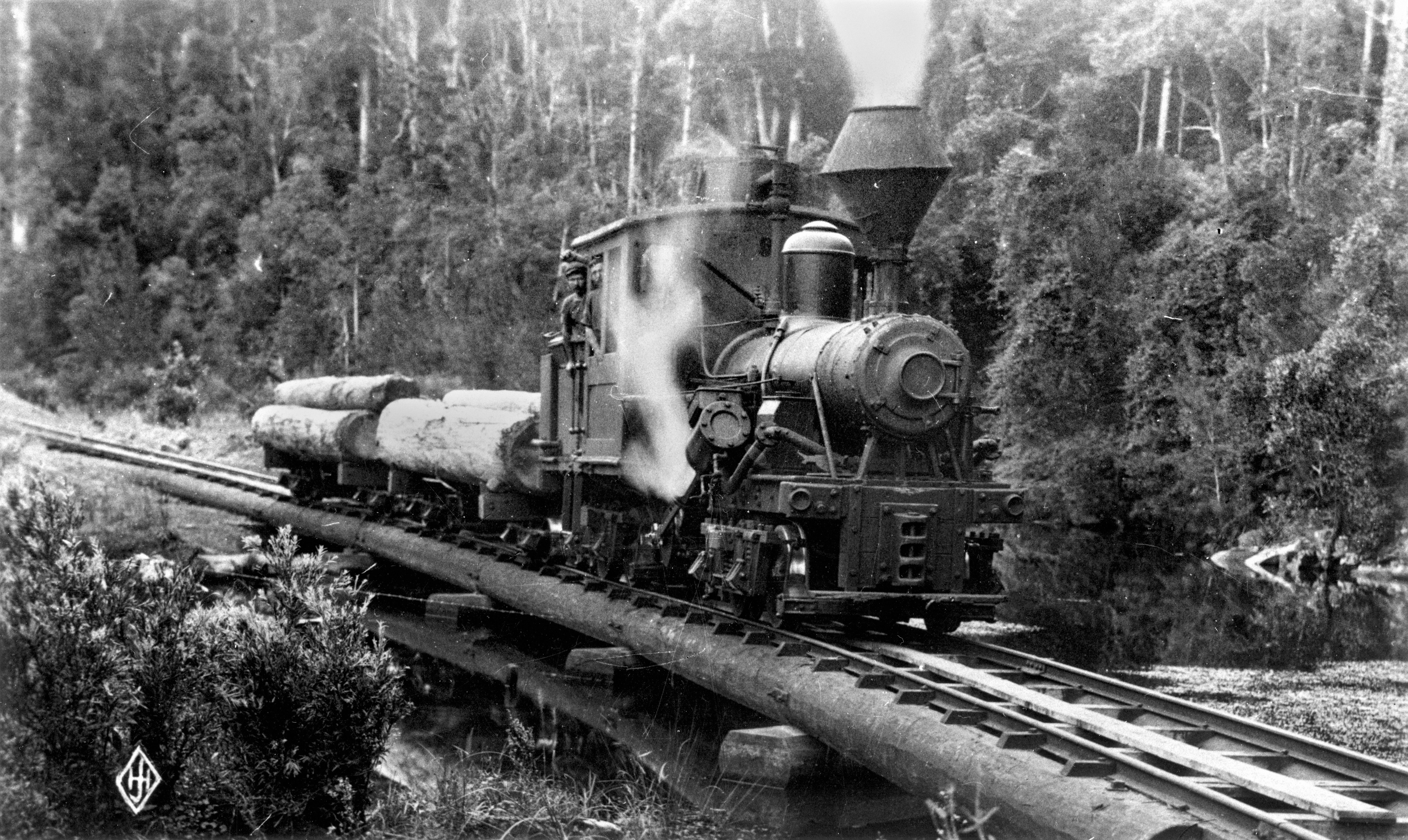 The Climax locomotive is shown here crossing a low wooden bridge of the Canungra Pine Creek Tramway hauling two bogies loaded with logs. It was the first steam locomotive used on the Canrunga-Pine Creek line, it started to run on 1st September 1903. It had been ordered from the USA in 1900 and was produced by the Climax Manufacturing Company of Corry, Pennsylvania. It was the first geared engine imported to Australia. The Class B Climax engine was invented by Charles Darwin Scott. (Reference: http:/​/​